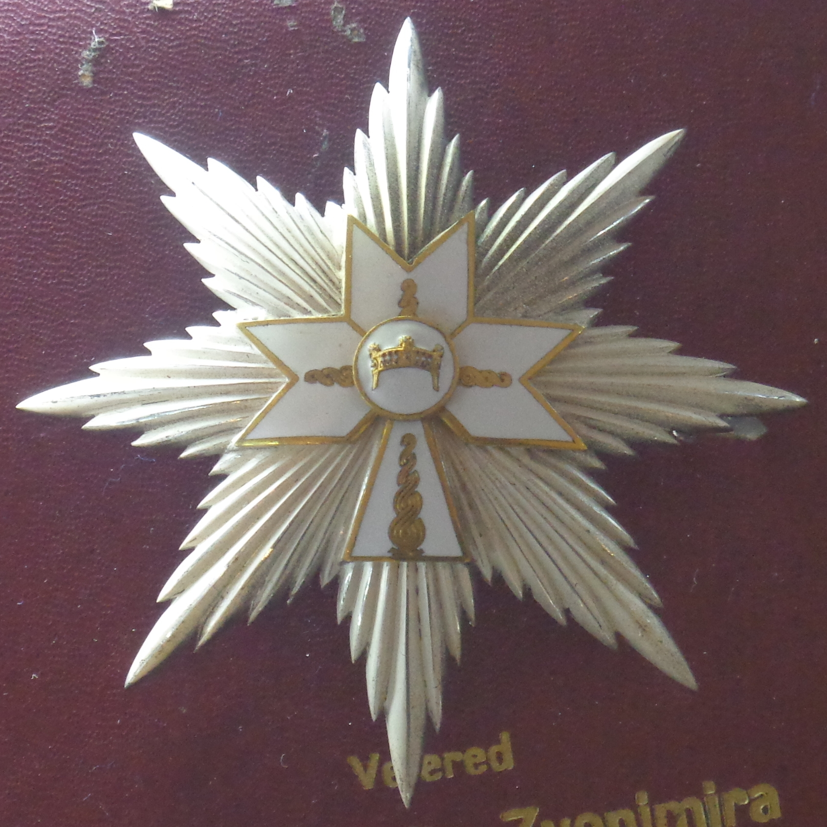 Order of the Crown of King Zvonimir, star of Grand Cross, 1942-1945. Croatia. The exhibition of the Tallinn Museum of Orders of Knighthood, Estonia.